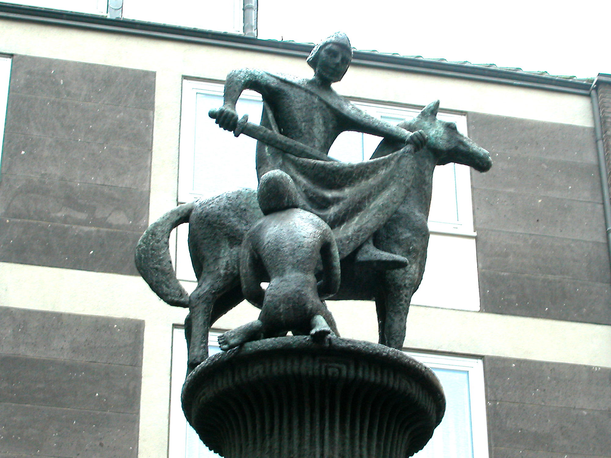 Andreas Church in Düsseldorf-Altstadt, Germany